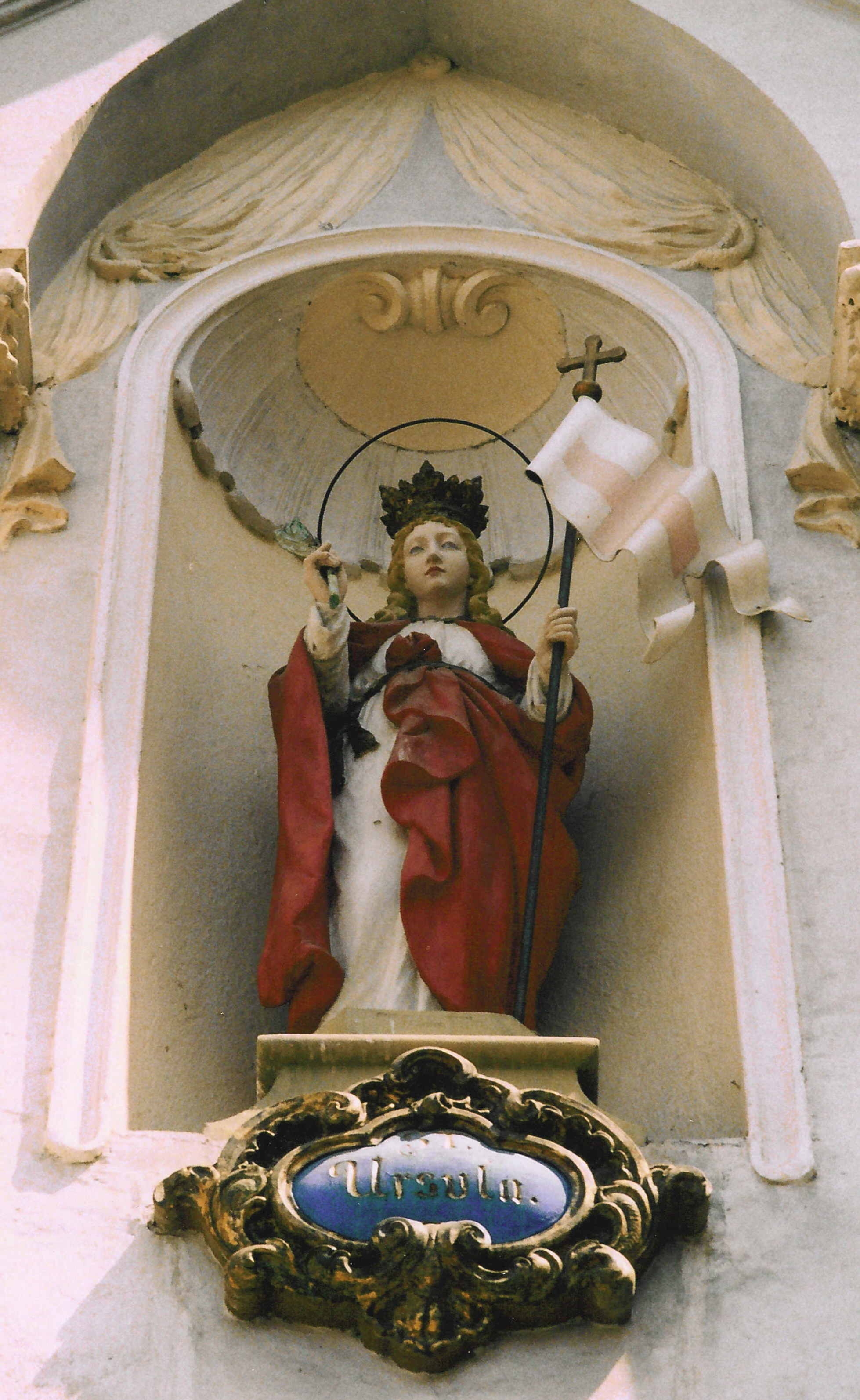 Statue of St. Ursula on the exterior of Ursuline Church, Sibiu, Romania.